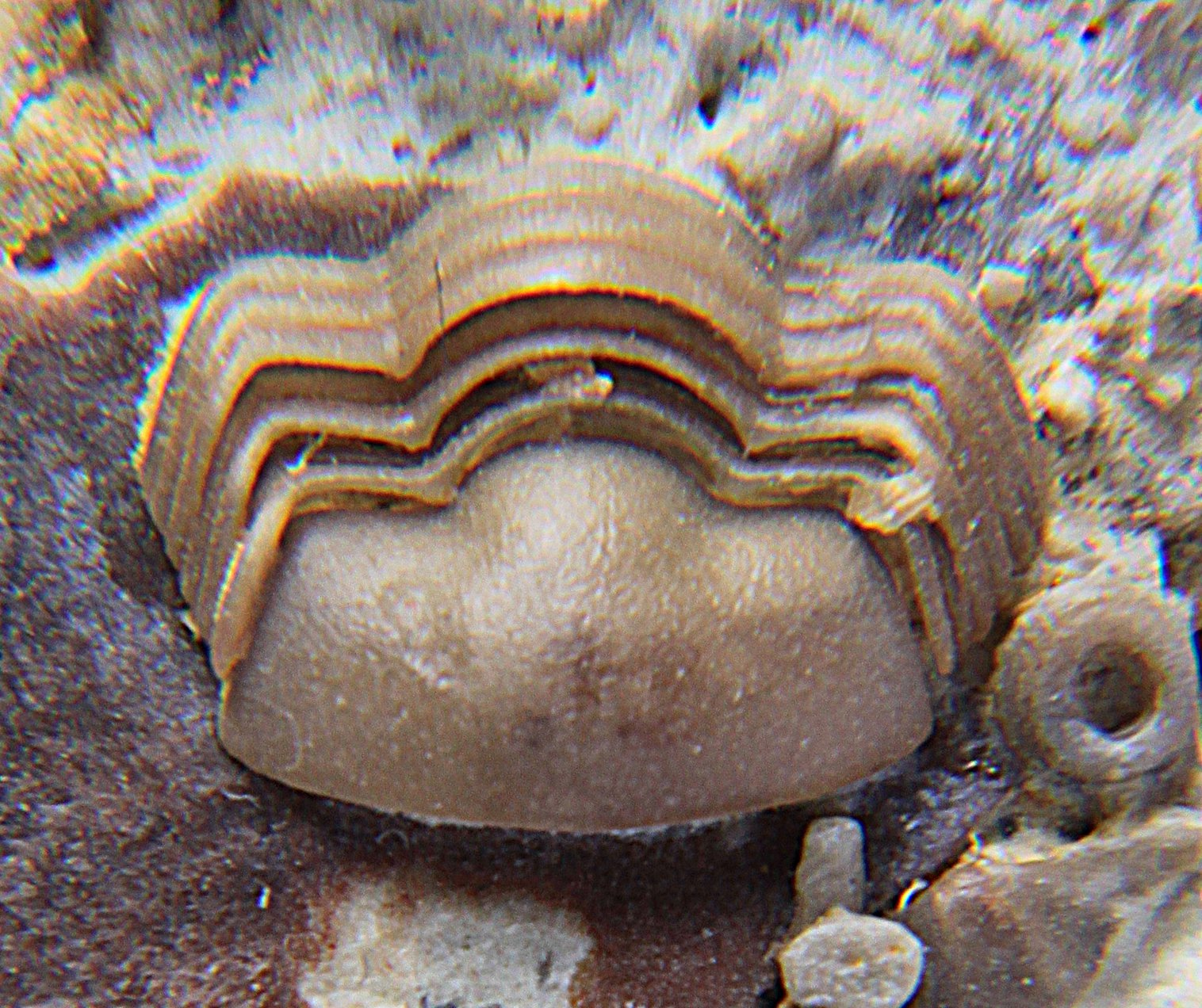 The tailpiece and back part of the body of a Nanillaenus punctatus trilobite, Order Corynexochida, Family Illaenidae, pygidium measures 4mm along the axis, collected at the Bromide Formation, near Ardmore, Carter County, Oklahoma, USA, from the early Upper Ordovician (Sandbian)